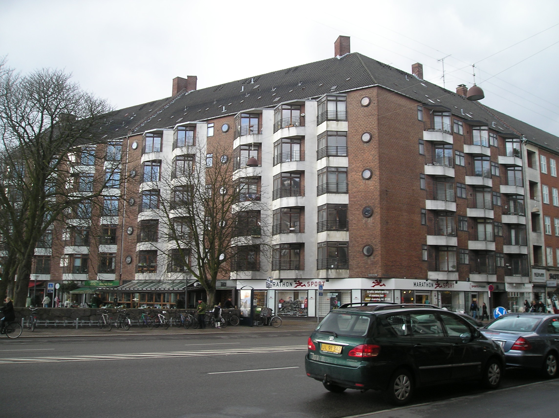 Building drawn by Ib Lunding at the corner of Sortedams Dossering and Østerbrogade in Copenhagen.